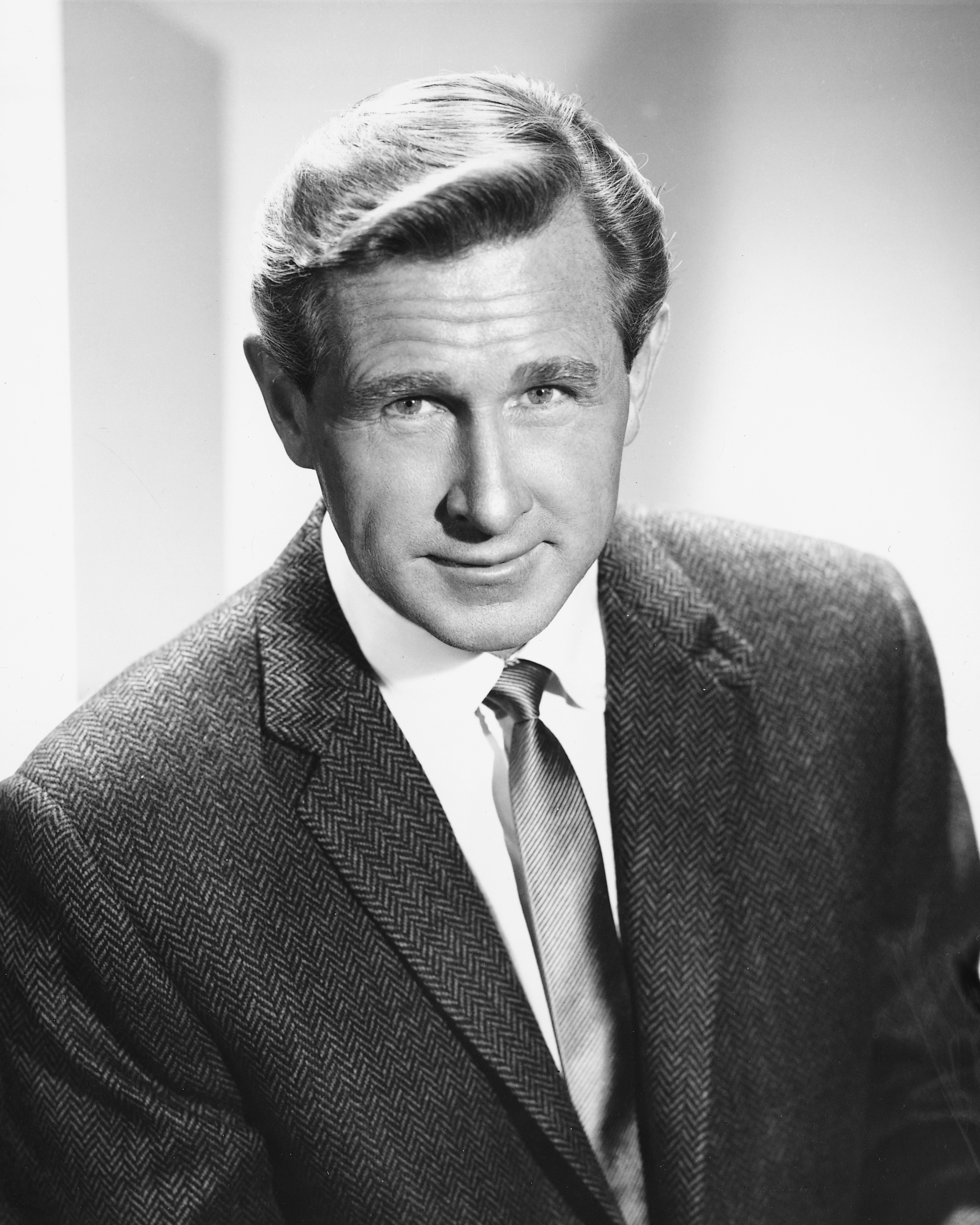 Publicity photo of Lloyd Bridges.